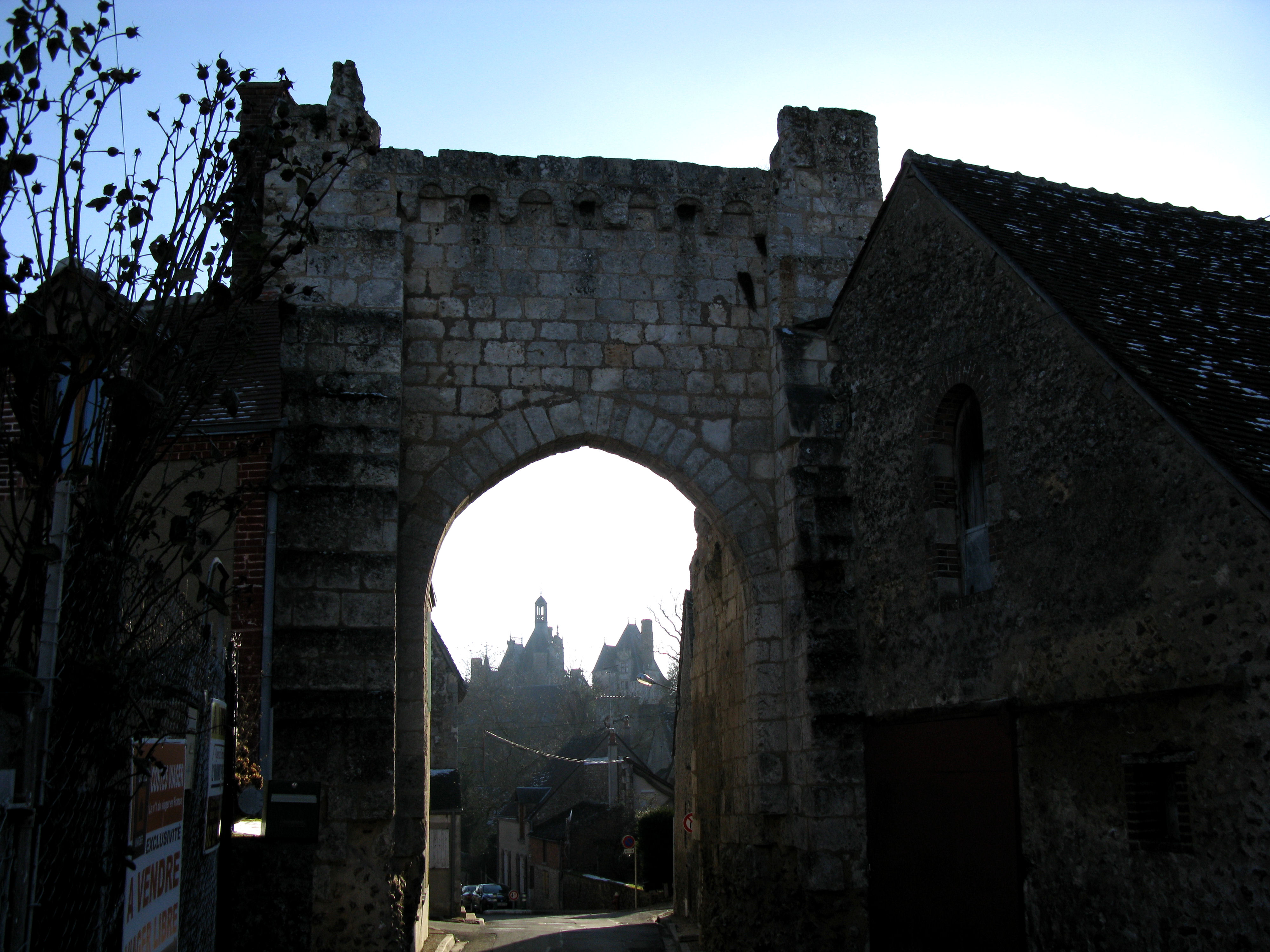 View of the castle of Montigny-Le-Gannelon, seen through the IXth century Port Roland